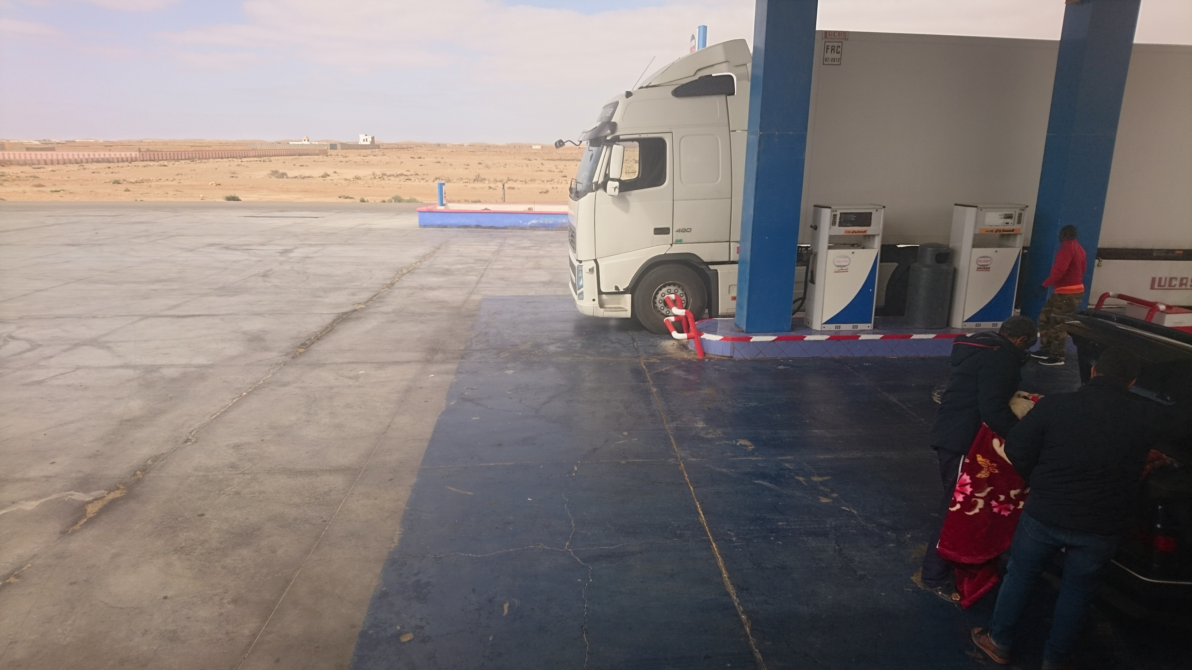 Petrol Station in Sahara - Morocco This is an image with the theme "Africa on the Move or Transport" from: Morocco